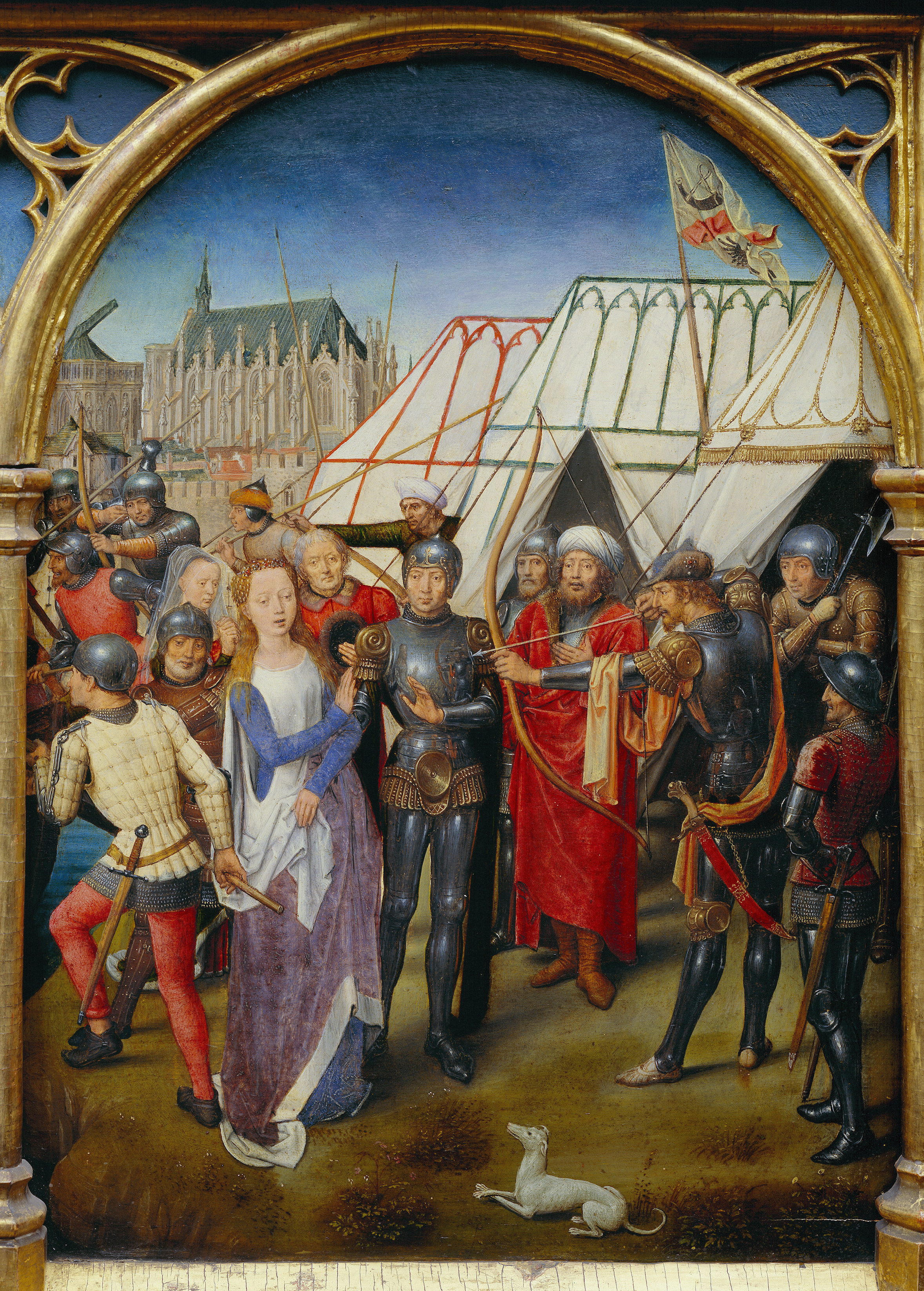 Part of the Reliquary of St. Ursula: St. Ursula and her companions are killed by the Huns outside the walls of Cologne; St. Ursula dies by an arrow, while the maidens are killed by arrows, spears or swords oil on panel 35 x 25,3 cm before 1489-10-21